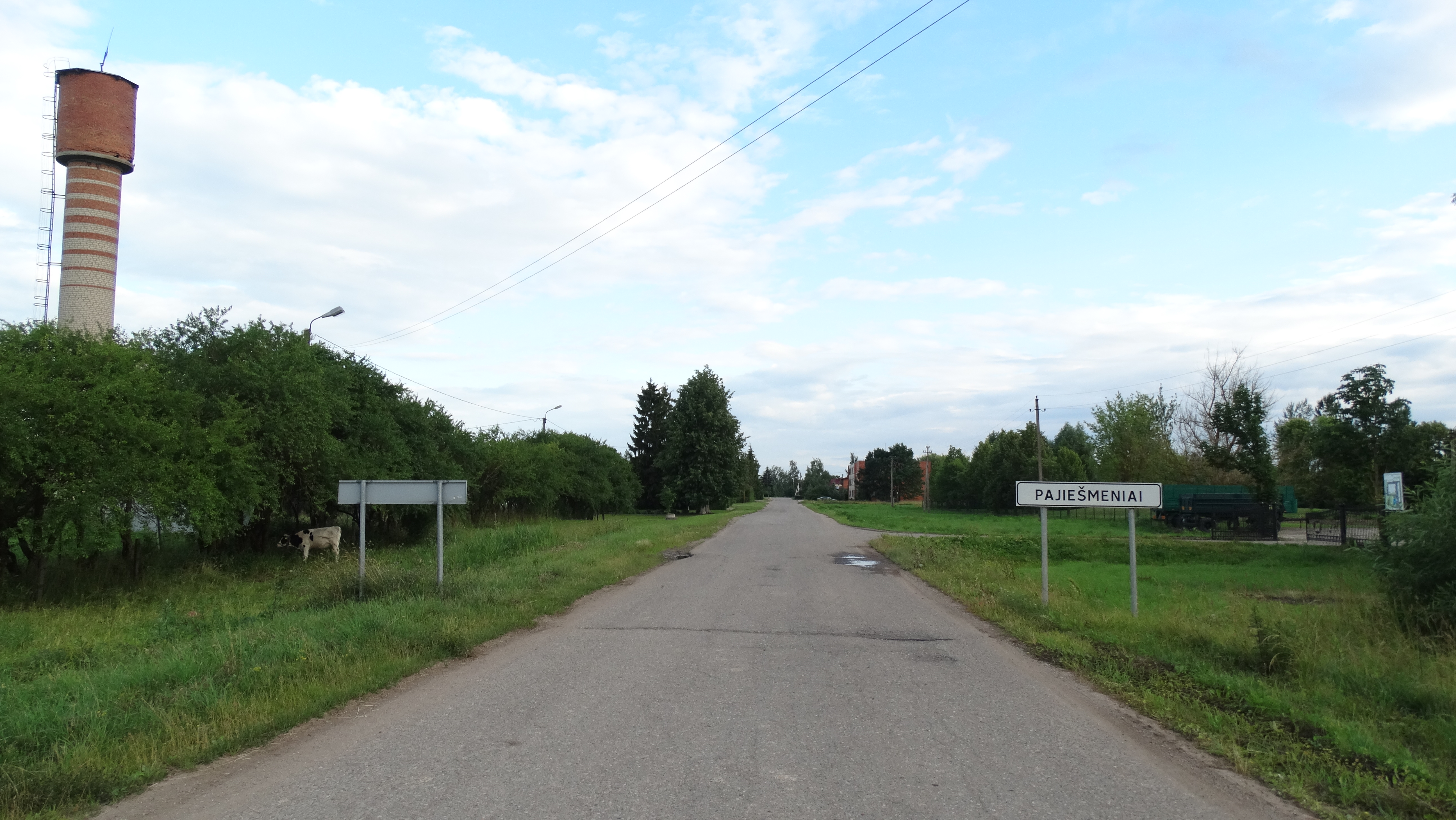 Paješmeniai, Pasvalys district, Lithuania